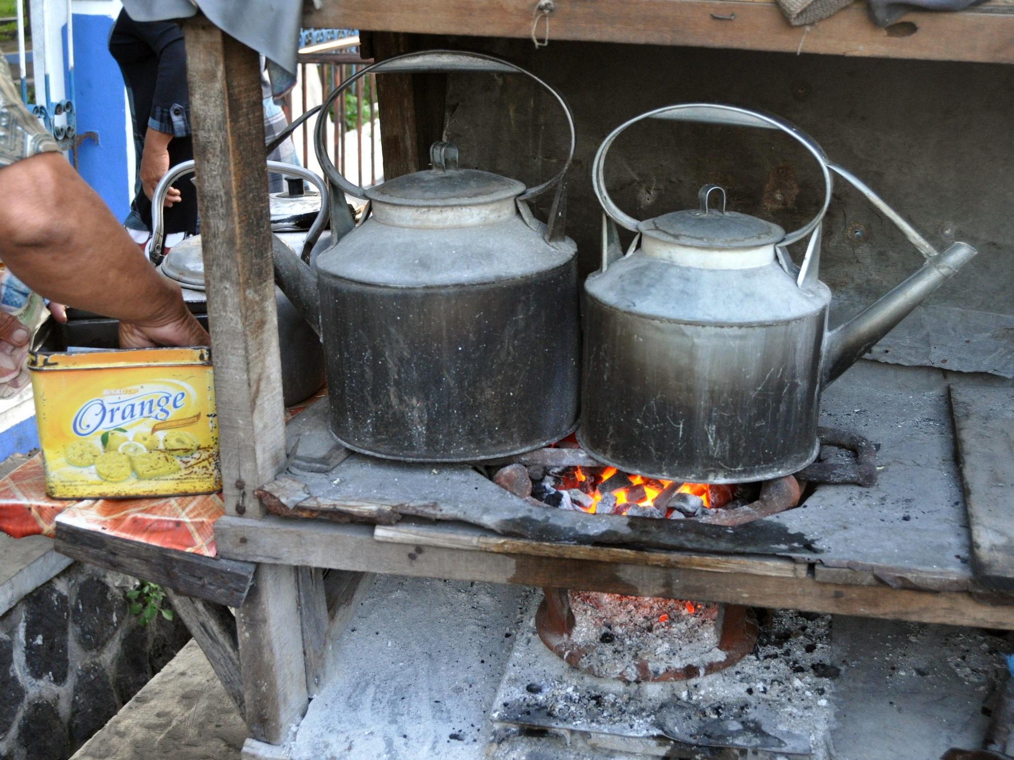 Anglo, a Javanese traditional terracotta stove using charcoal; used for boiling water at angkringan street food seller in Solo, Central Java, Indonesia.